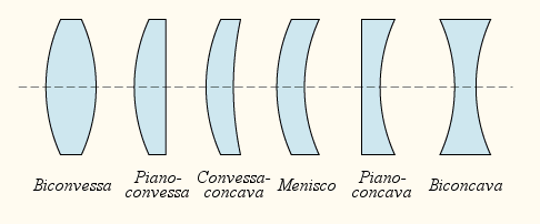 Types of lens, italian translation